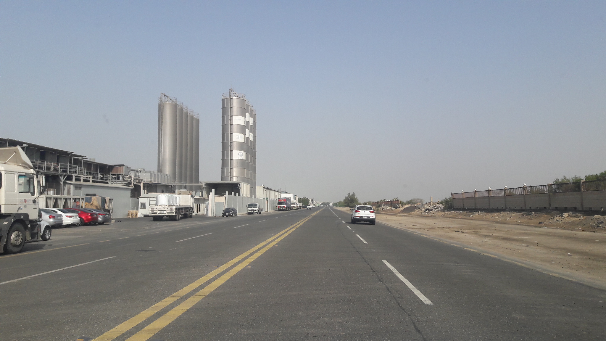 Jeddah 1st Industrial City